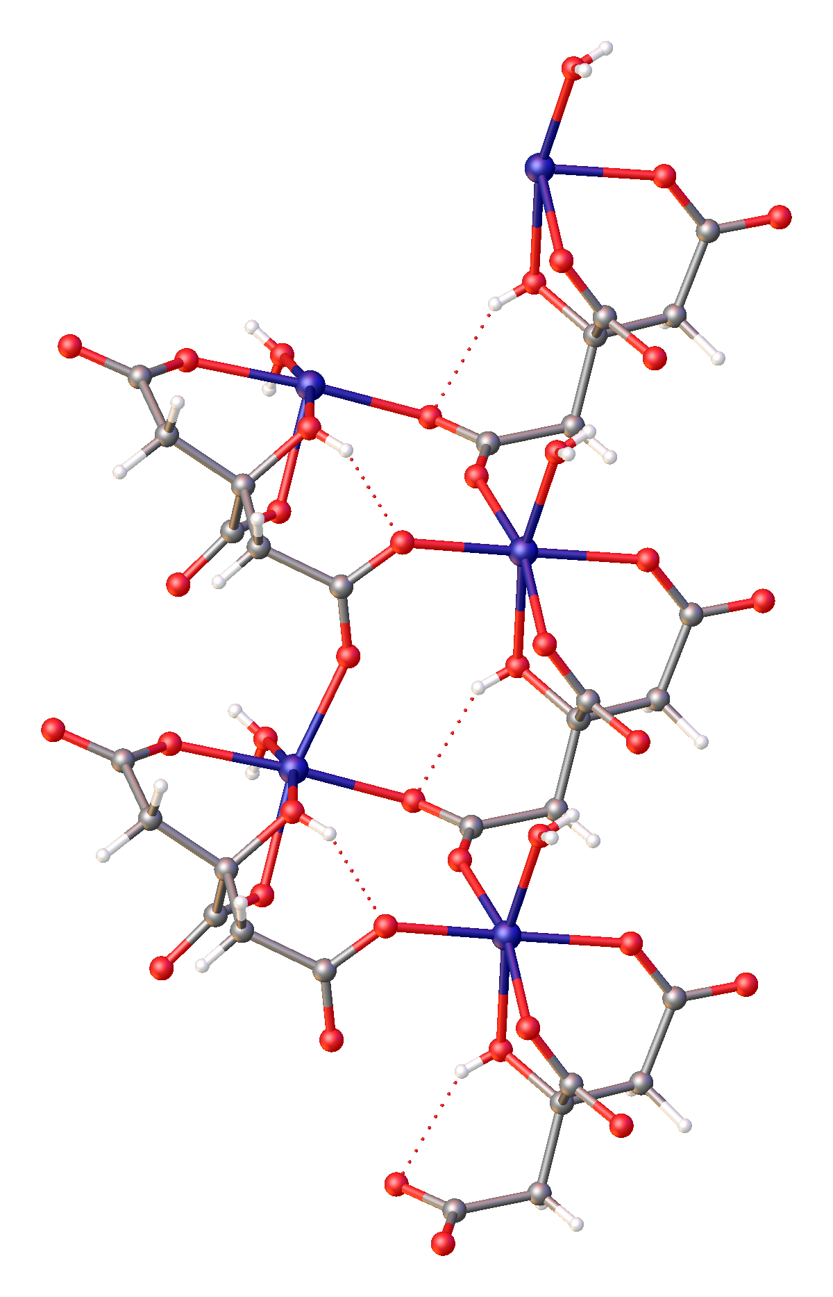 structure of ferrous citrate with CSD code FEACIT, showing the anionic coordination polymer